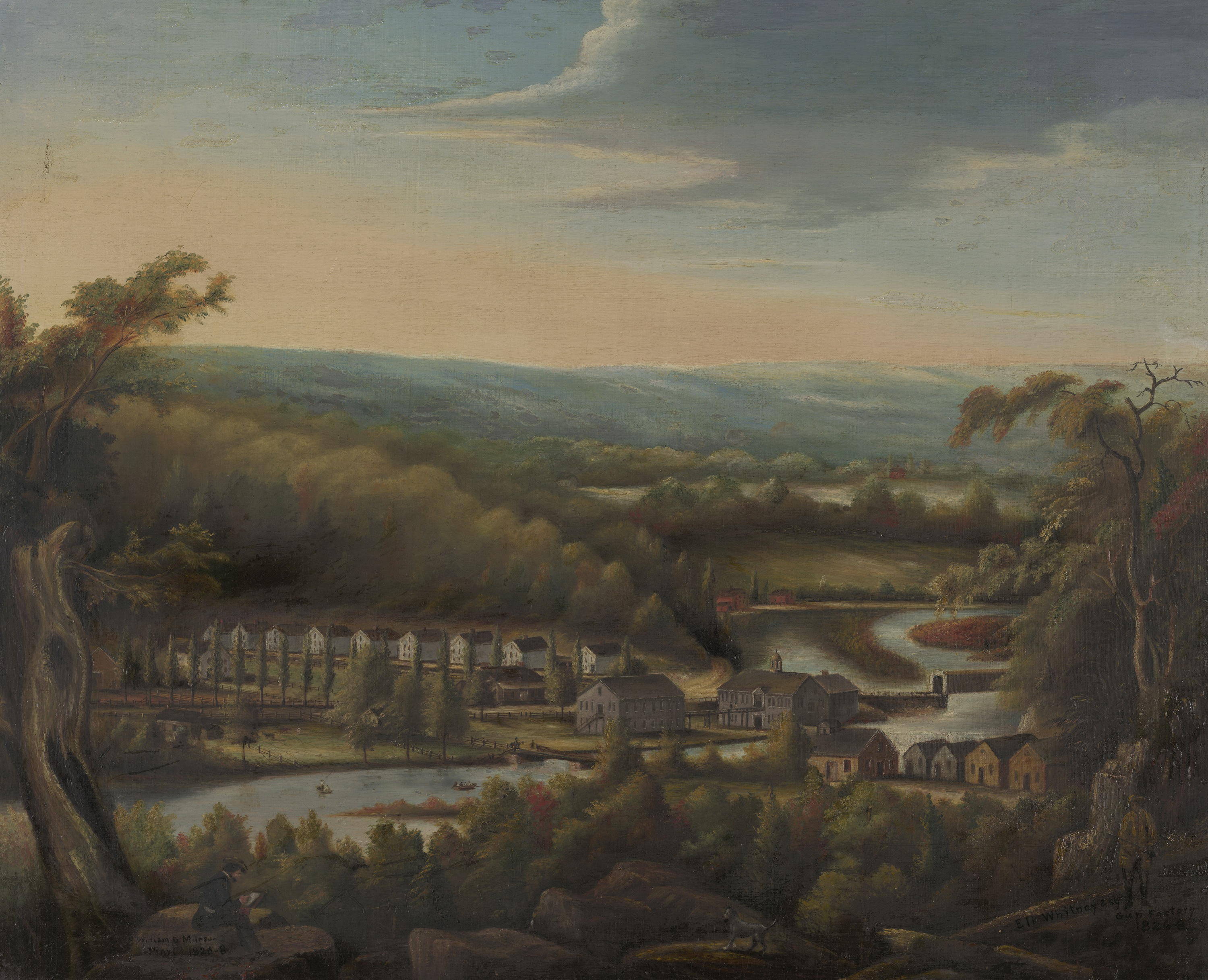 An 1827 view of the Eli Whitney Gun Factory and Whitneyville. Connecticut's Mill River flows through the middle-ground.